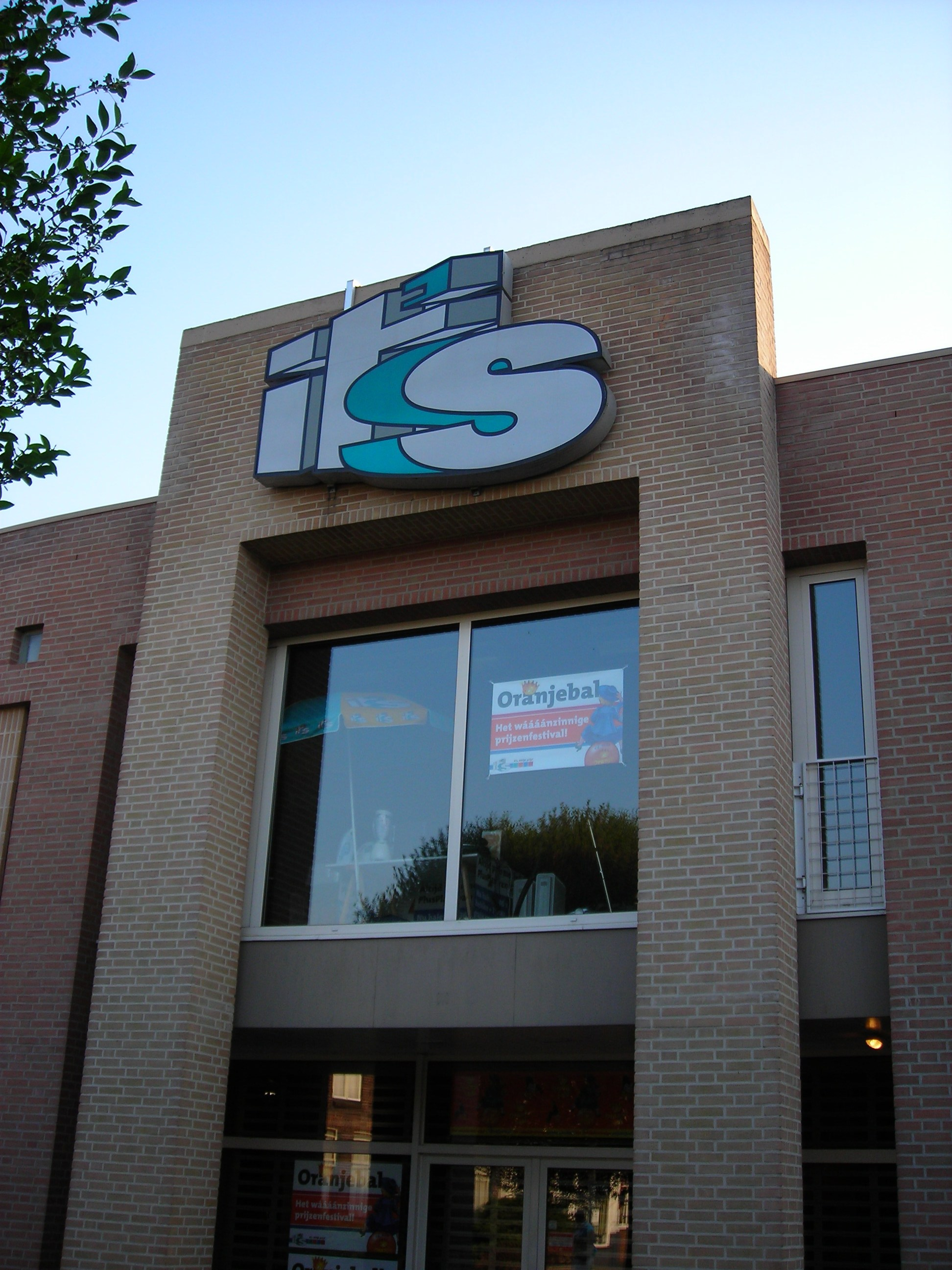 An "It's" store in Boxmeer, The Netherlands